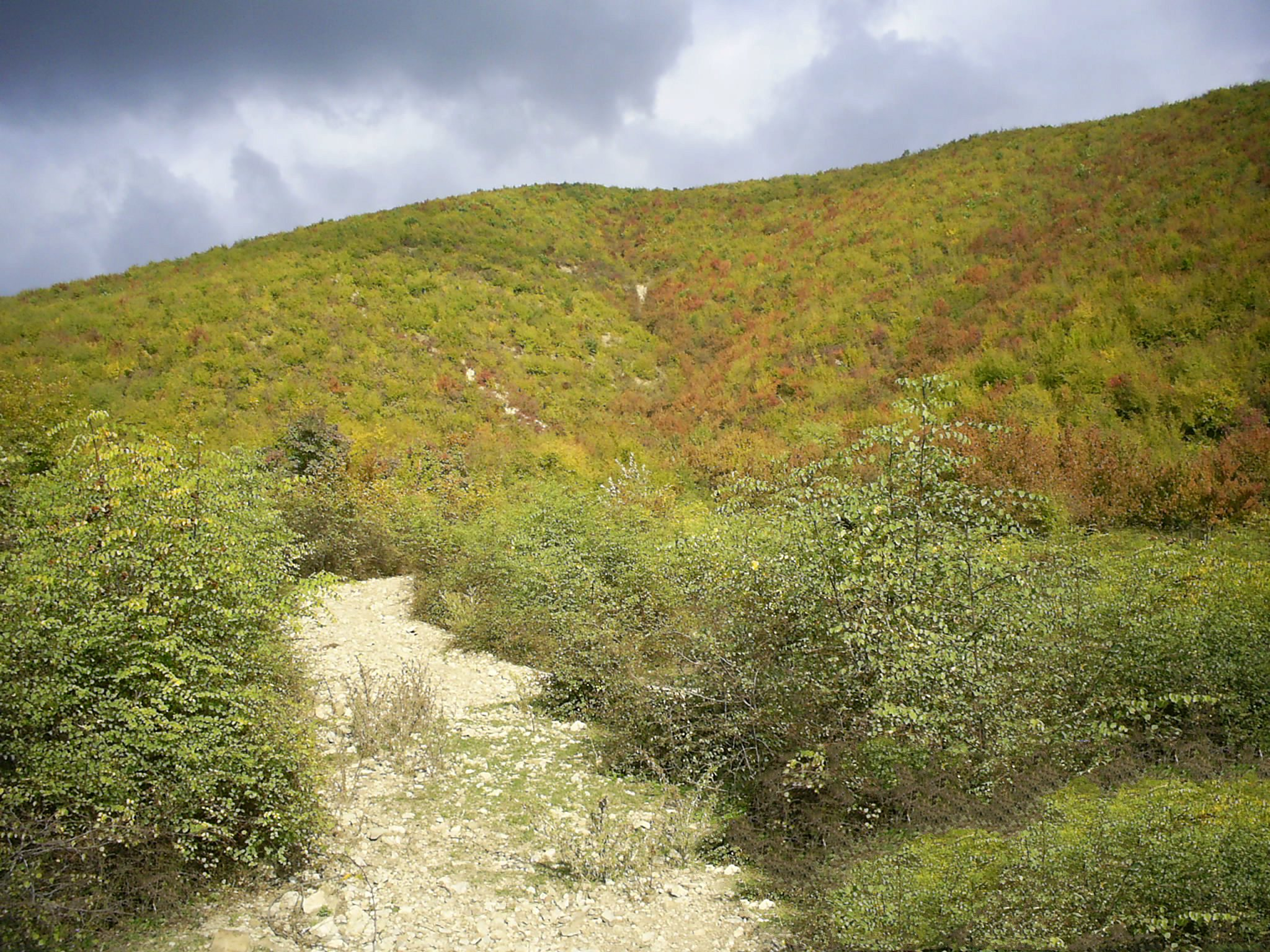 Sheki